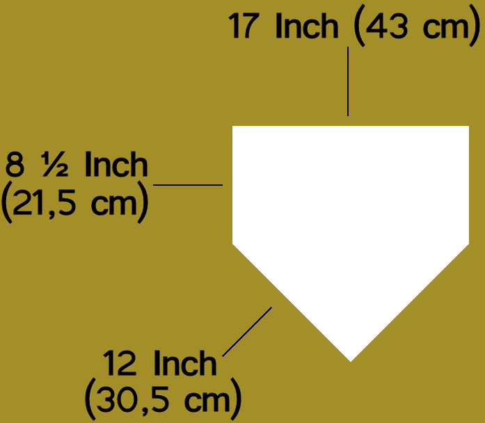 Home plate dimensions